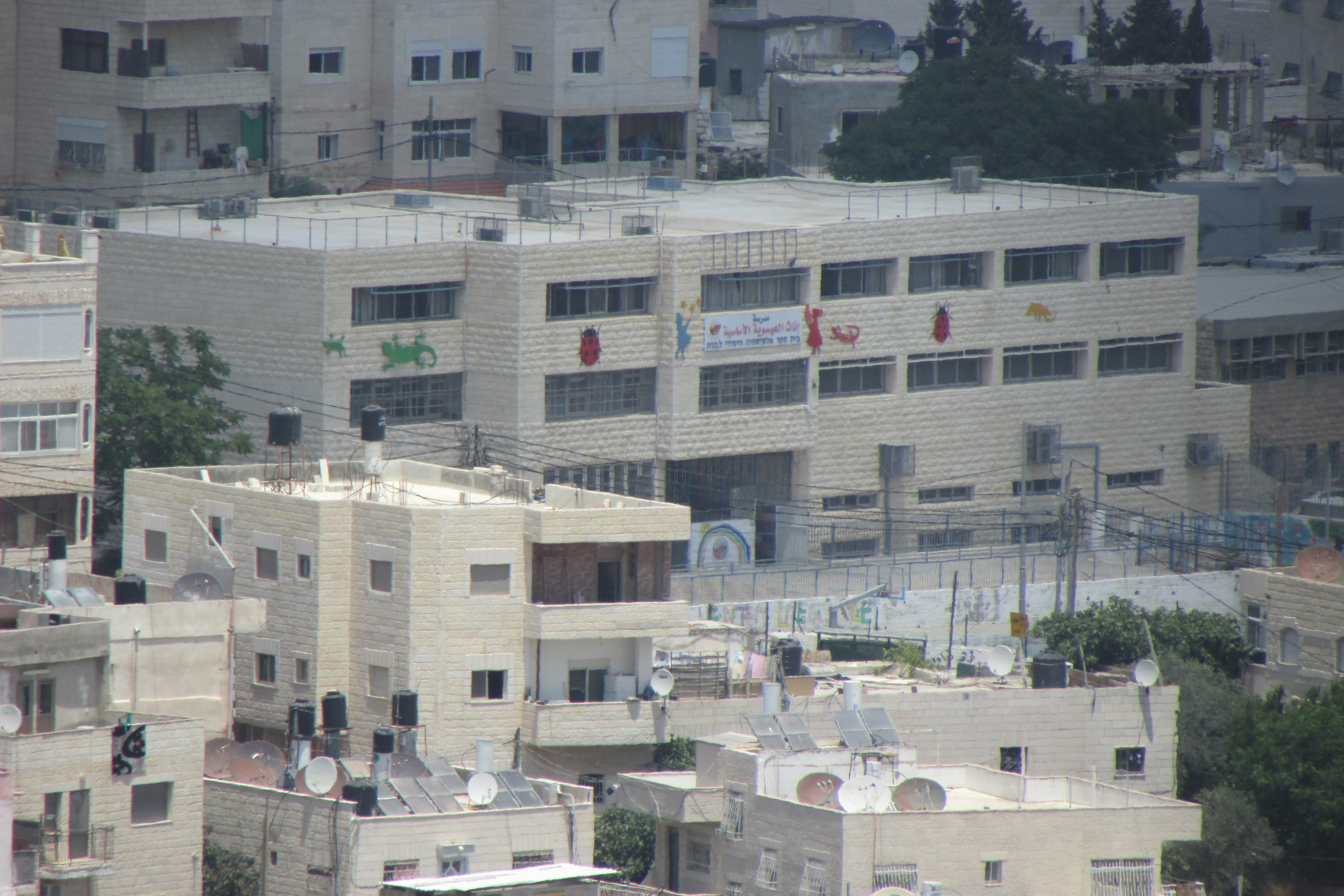 Issawiya from Mount Scopus Girl school